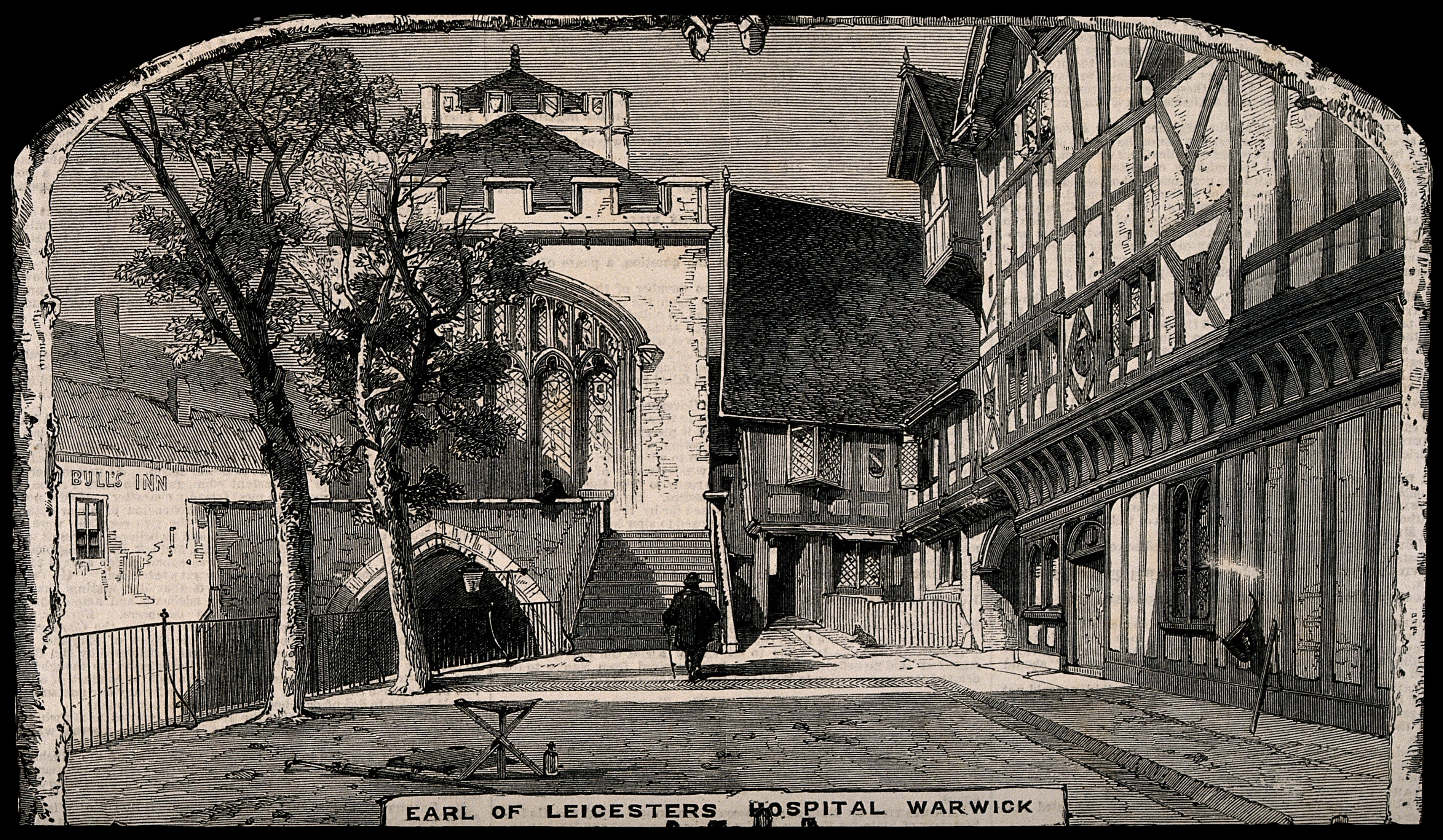 Leicester Hospital, Warwick. Wood engraving. Iconographic Collections Keywords: Leicester